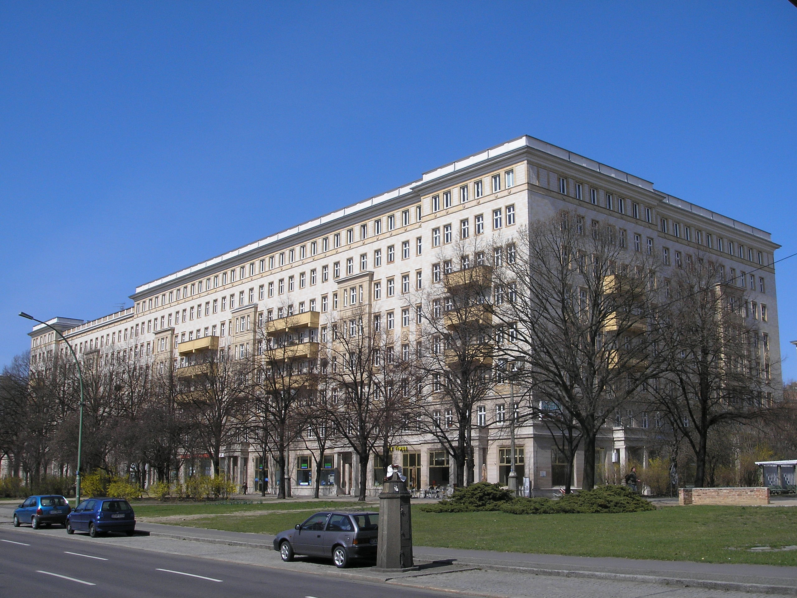 View on Block D North of Karl-Marx-Allee in Berlin. Architect Kurt Leucht, constructed around 1952.